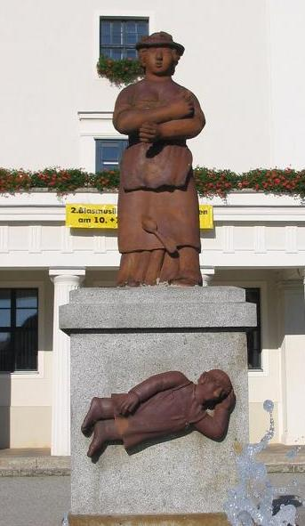 Monument „Sabinchen“, built by Lothar Sell, in the town Treuenbrietzen in the district Potsdam Mittelmark, state Brandenburg, Germany. Treuenbrietzen is situated in the landscape Fläming.